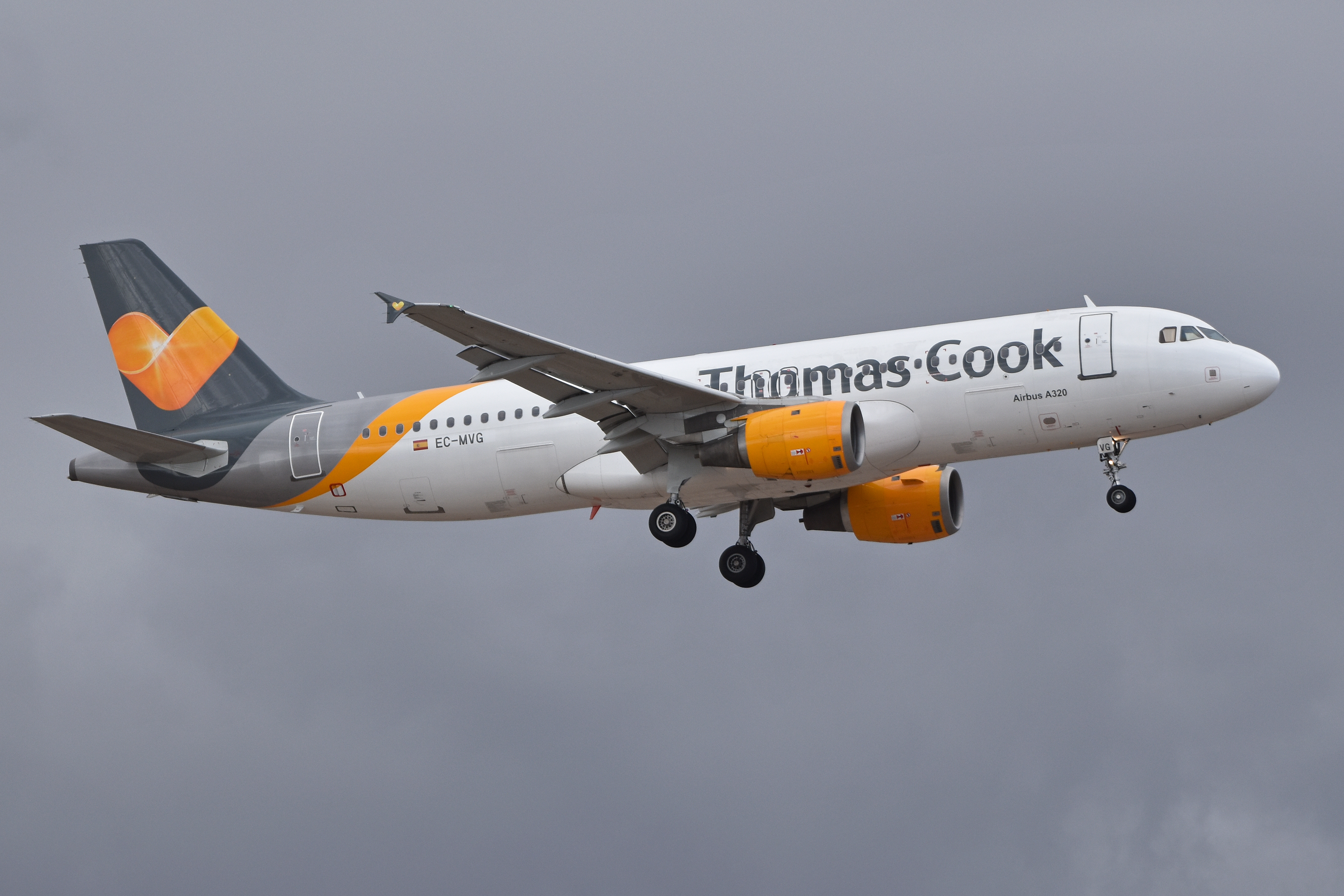 c/n 1402 Built 2001 for Condor as D-AICJ Arriving on flight MT1222 / TCX38VZ from Birmingham Tenerife South Airport, Granadilla de Abona, Tenerife, Canary Islands 18th January 2019